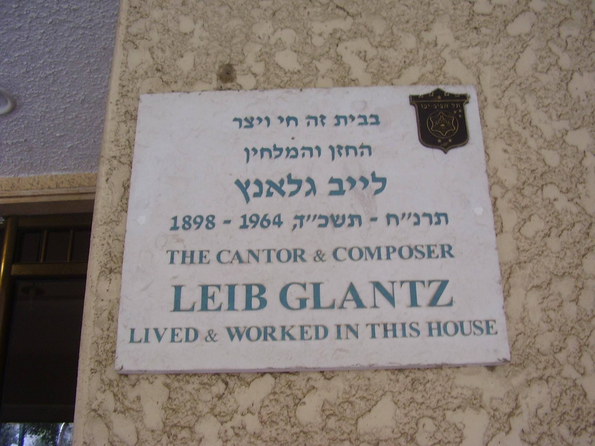 memorial plaque to the cantor & composer leib glantz in tel aviv לוחית זיכרון לחזן והמלחין לייב גלאנץ בשדרות בן גוריון 56 בתל אביב